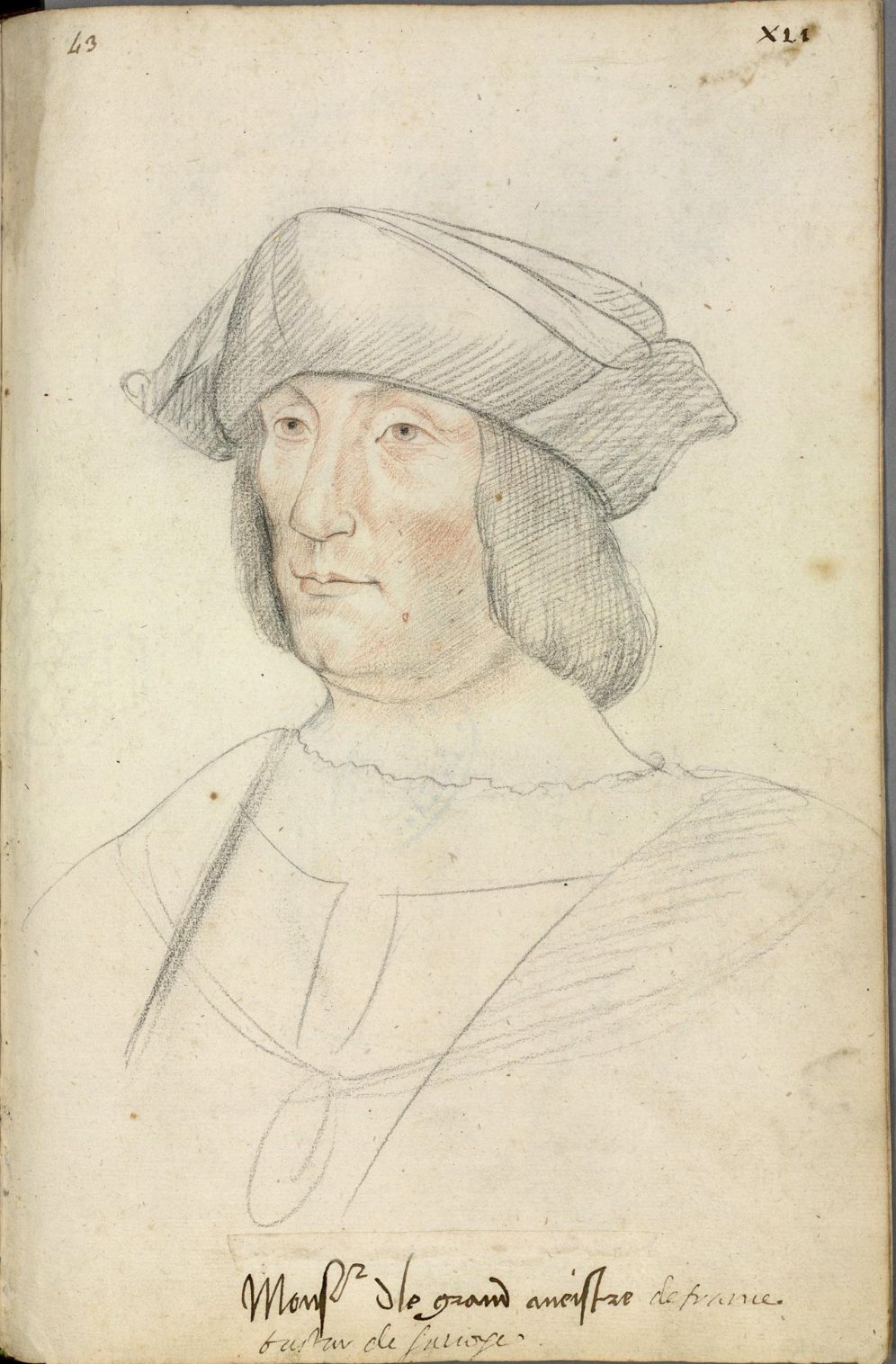 Artus Gouffier de Boissy, Monsieur le Grand Maìtre de France, d. 1519, from an unpublished manuscript at Bibliothèque Méjane, Aix-en-Province